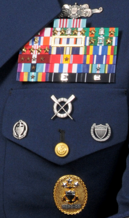 Example Image of U.S. Coast Guard ribbons and insignia as shown on the uniform of a Master Chief Petty Officer of the Coast Guard (former MCPO-CG Michael Leavitt)